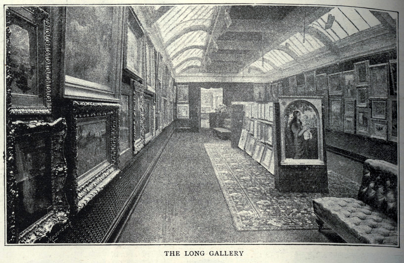 The Long Gallery at the Grafton Galleries, from The Opening of the New Grafton Galleries, Graphic, 25 February 1893, 47: 184